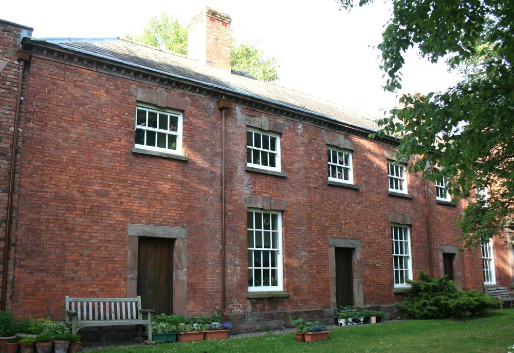 Crewe's Almshouses, Beam Street, Nantwich, Cheshire